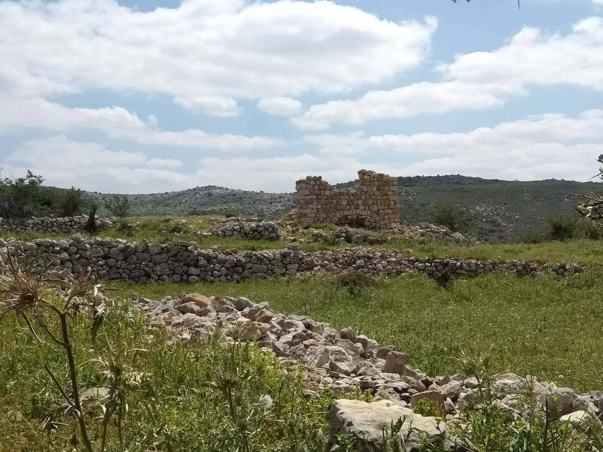 A picture of an existing building from the ruins of Khirbat Jalal al-Din east of the town of Bruqin, west of Salfit